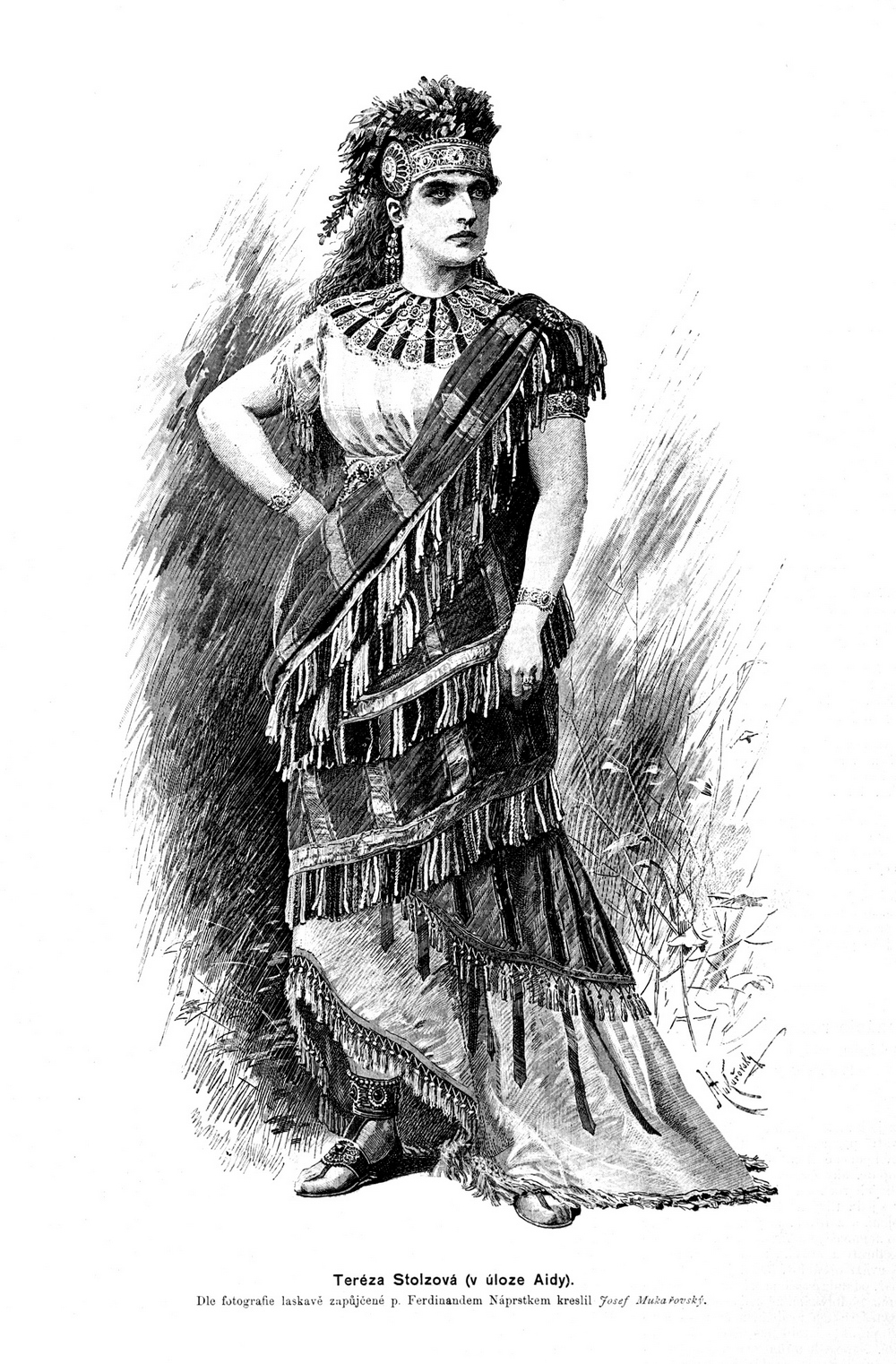 Teresa Stolz (1834-1902), bohemian opera soprano as Aida